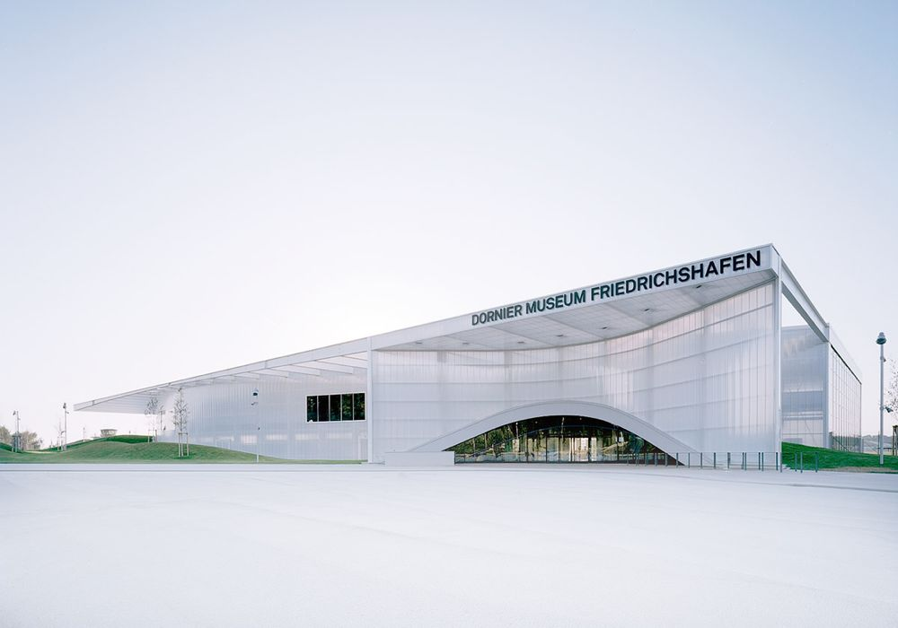 Dornier-Museum in Friedrichshafen